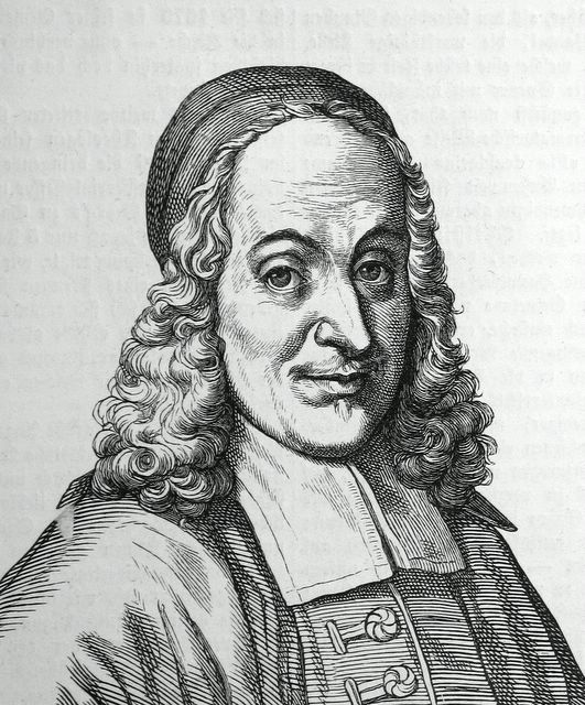 Philipp Jacob Spener